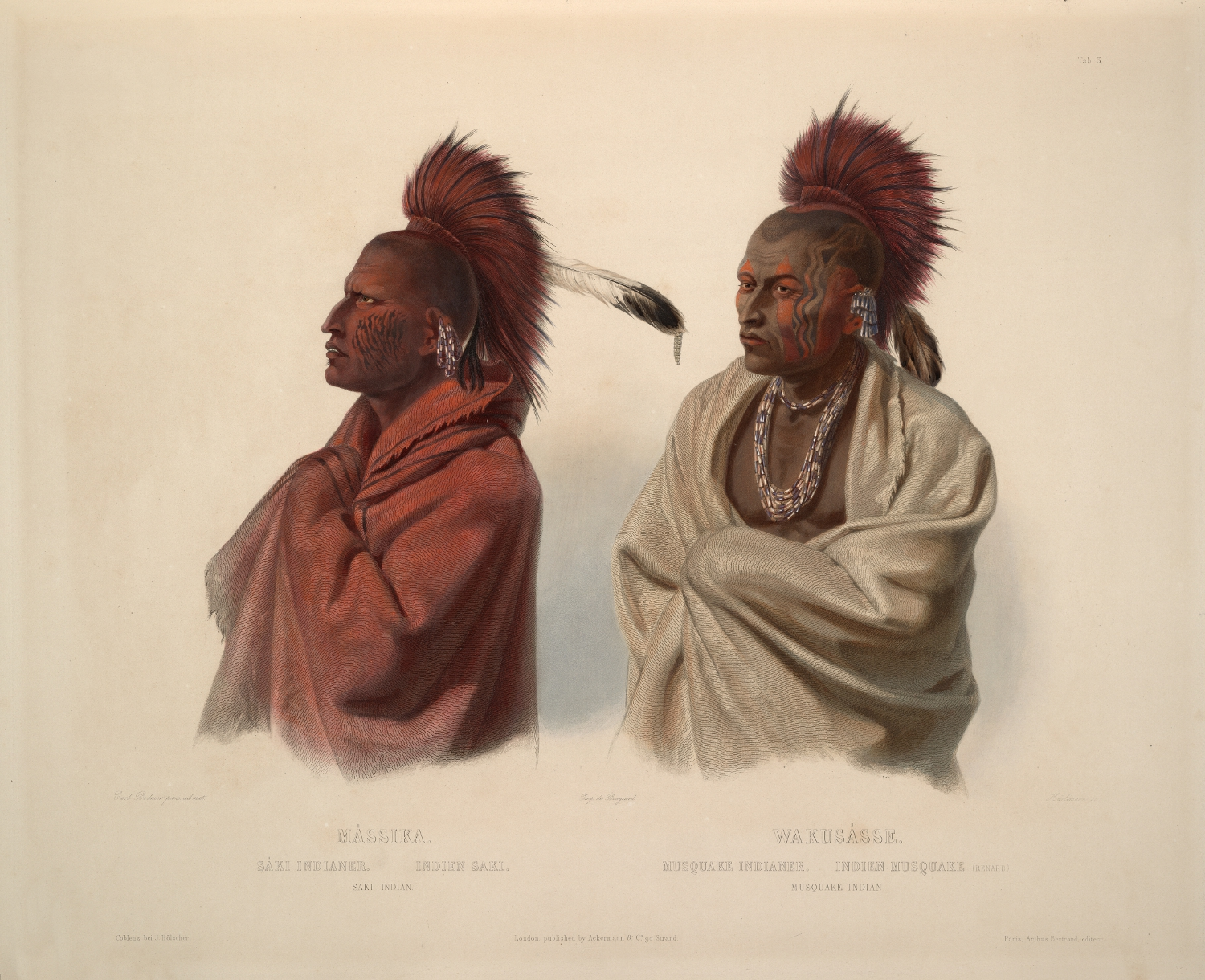 Author: aquatint by Karl Bodmer from the book "Maximilian, Prince of Wied’s Travels in the Interior of North America, during the years 1832–1834" by Prince Maximilian of Wied (Publisher: Ackermann & Co., 1839) Source URL